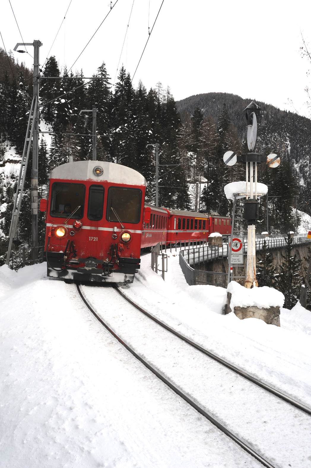 Home signal (inoperative) Wiesen Station RhB, from direction Filisur with leaving control cab coach BDt 1721 in front.